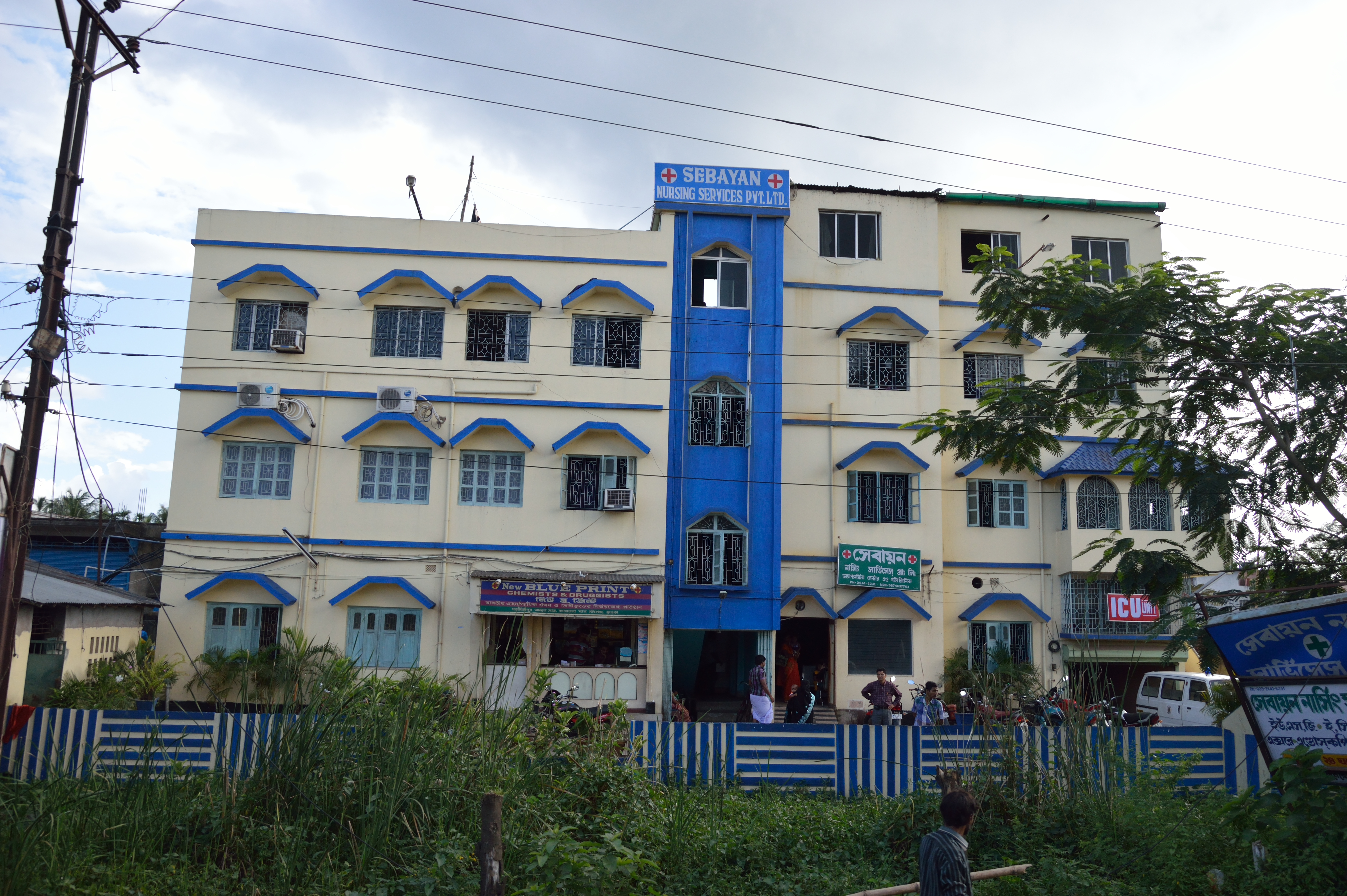 Photographed at Howrah.